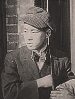 Photos of Japanese actor and director Yutaka Abe made in Hollywood in the 1910s.